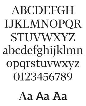 Tabac typeface